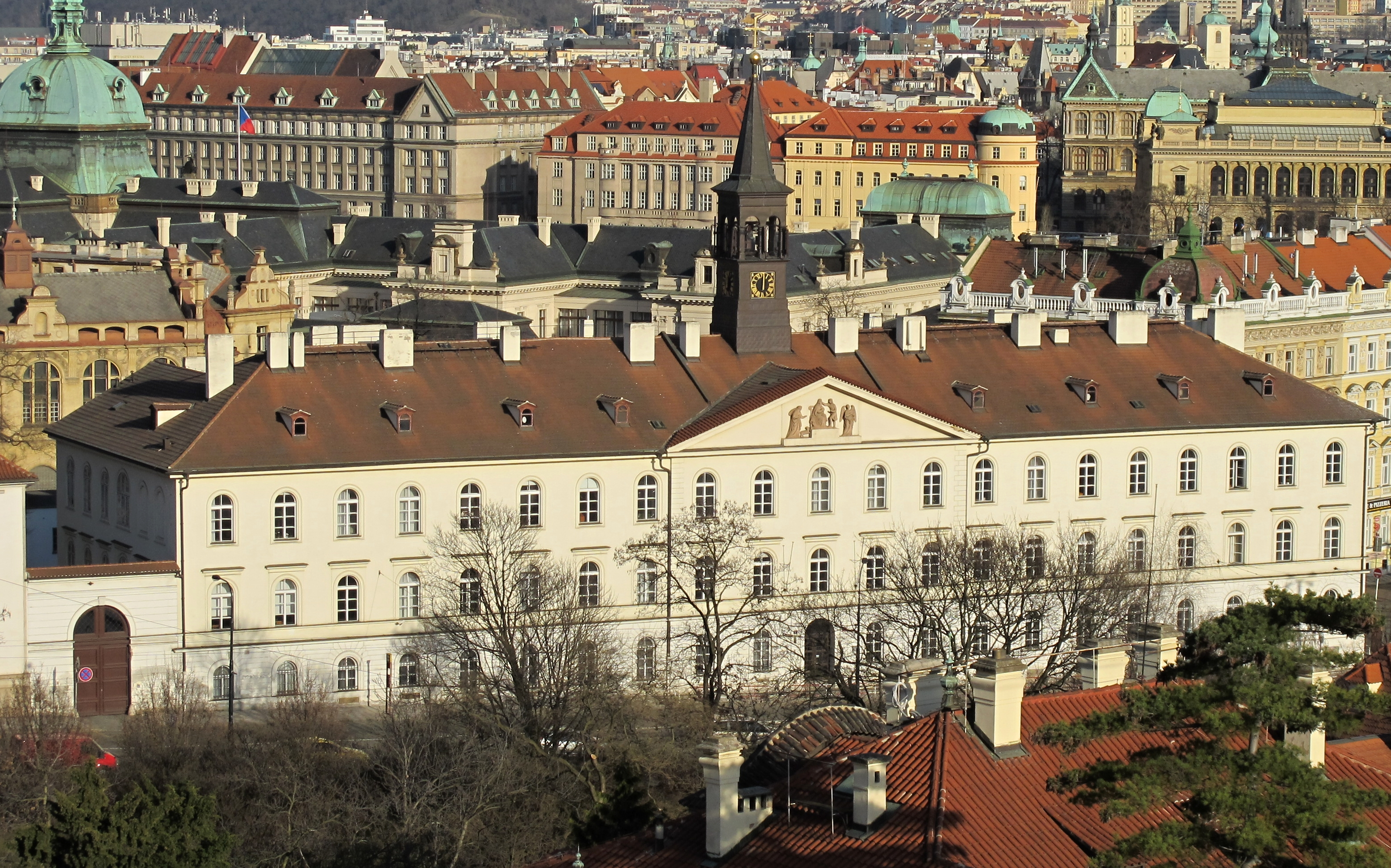 Czech Geologicasl Survey, Prague - Czech Republic